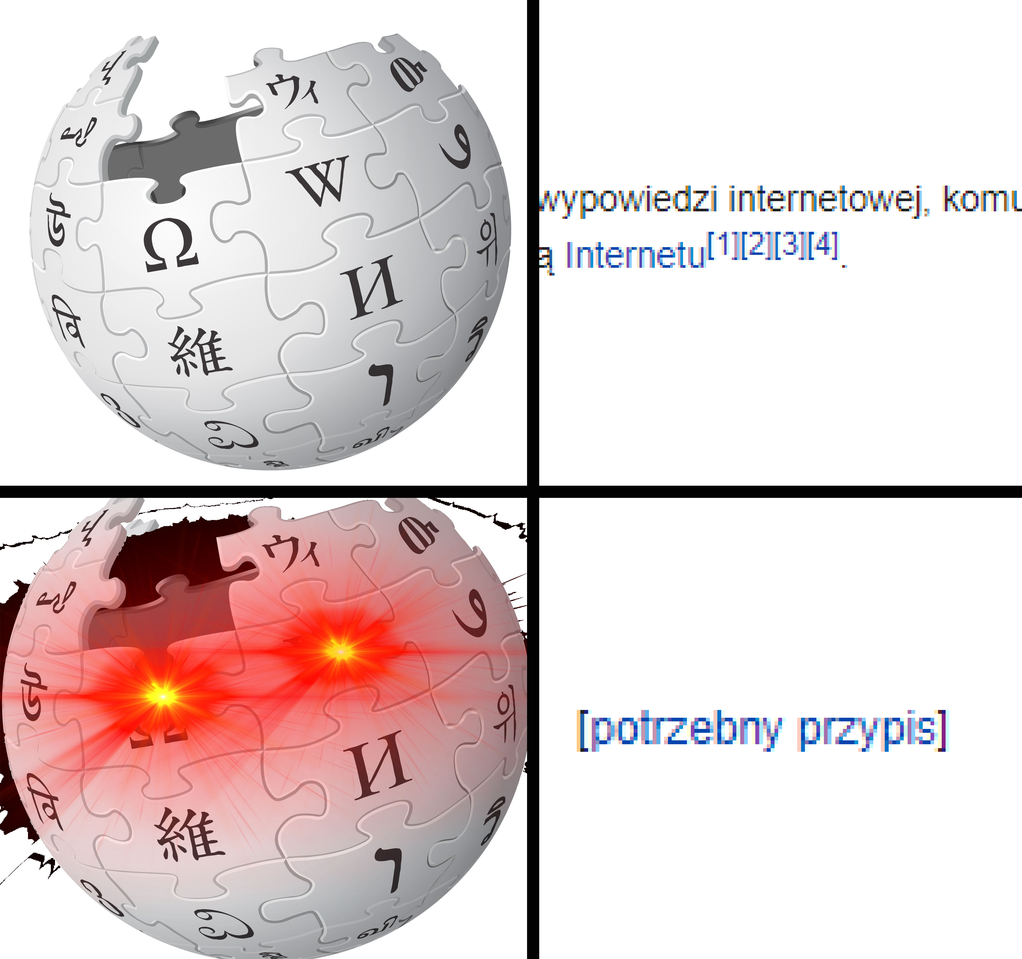 An example of a "dank" internet meme, on the subject of Wikipedia and their treatment of sources. Features common "dank" themes such as humour through absurdity, gradually increasing verbosity, intentionally poor image compression, and an overall sense of disorder and nonsense.